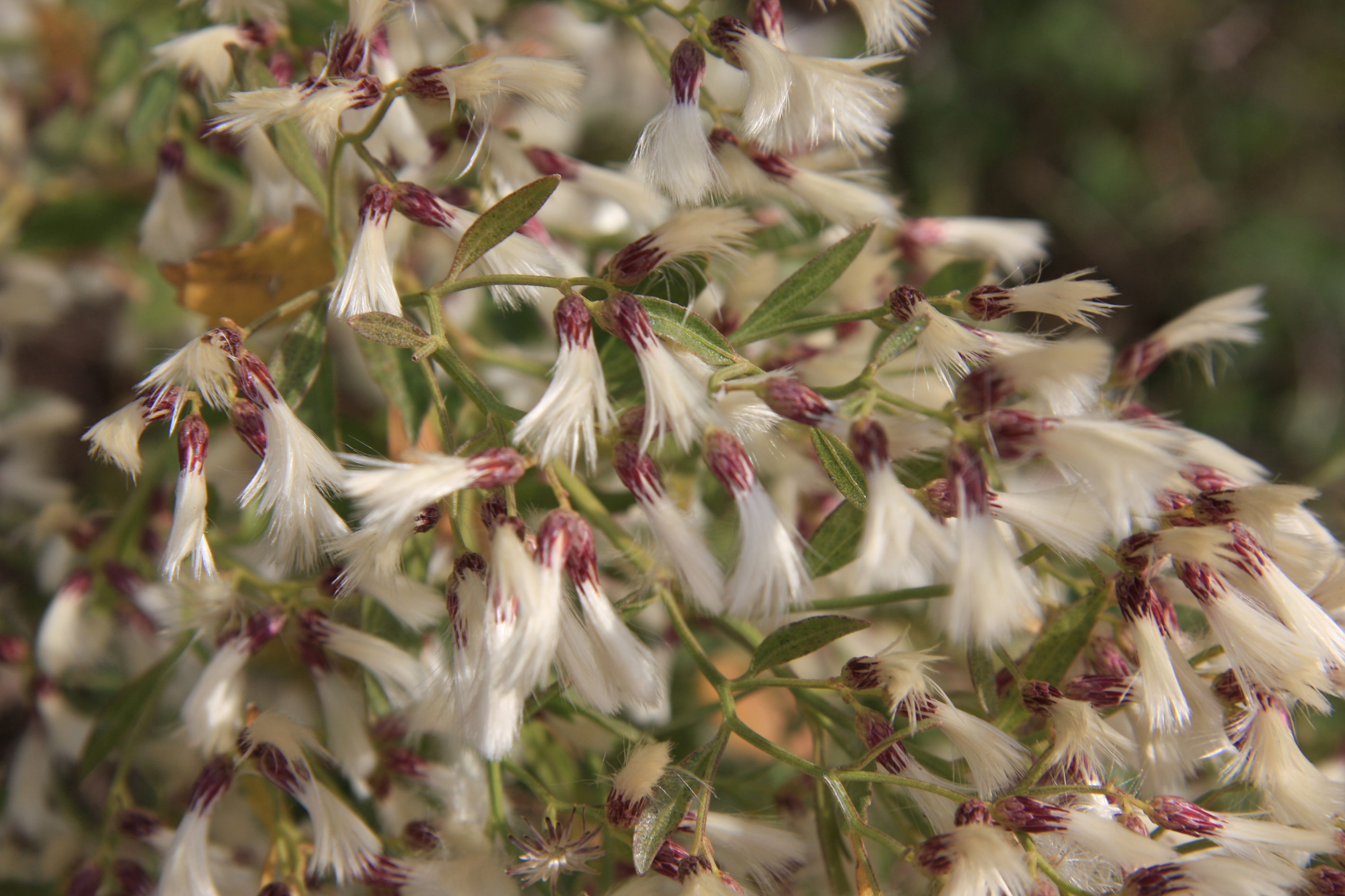 Groundseltree (Baccharis halimifolia) fall flowerhead with purple sheaths and silky white pappus. Along route I-40 in Johnston County, eastern North Carolina.